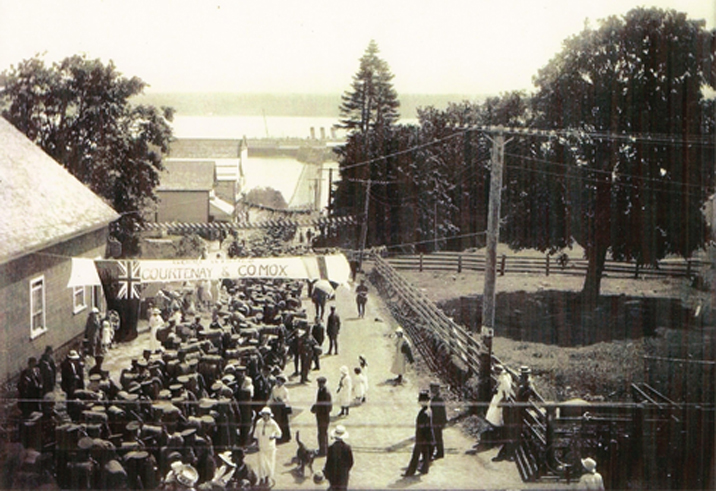 Soldiers of the 102nd Regiment of the Canadian Expeditionary Force march down Wharf Road in Comox, British Columbia, Canada on 10 June 1916 to embark on the SS Princess Charlotte (in background), the first part of their journey to the trenches of the Great War. The 102nd Regiment was composed of men from across British Columbia who had been trained at a camp on the Goose Spit in Comox during the winter of 1915-1916.